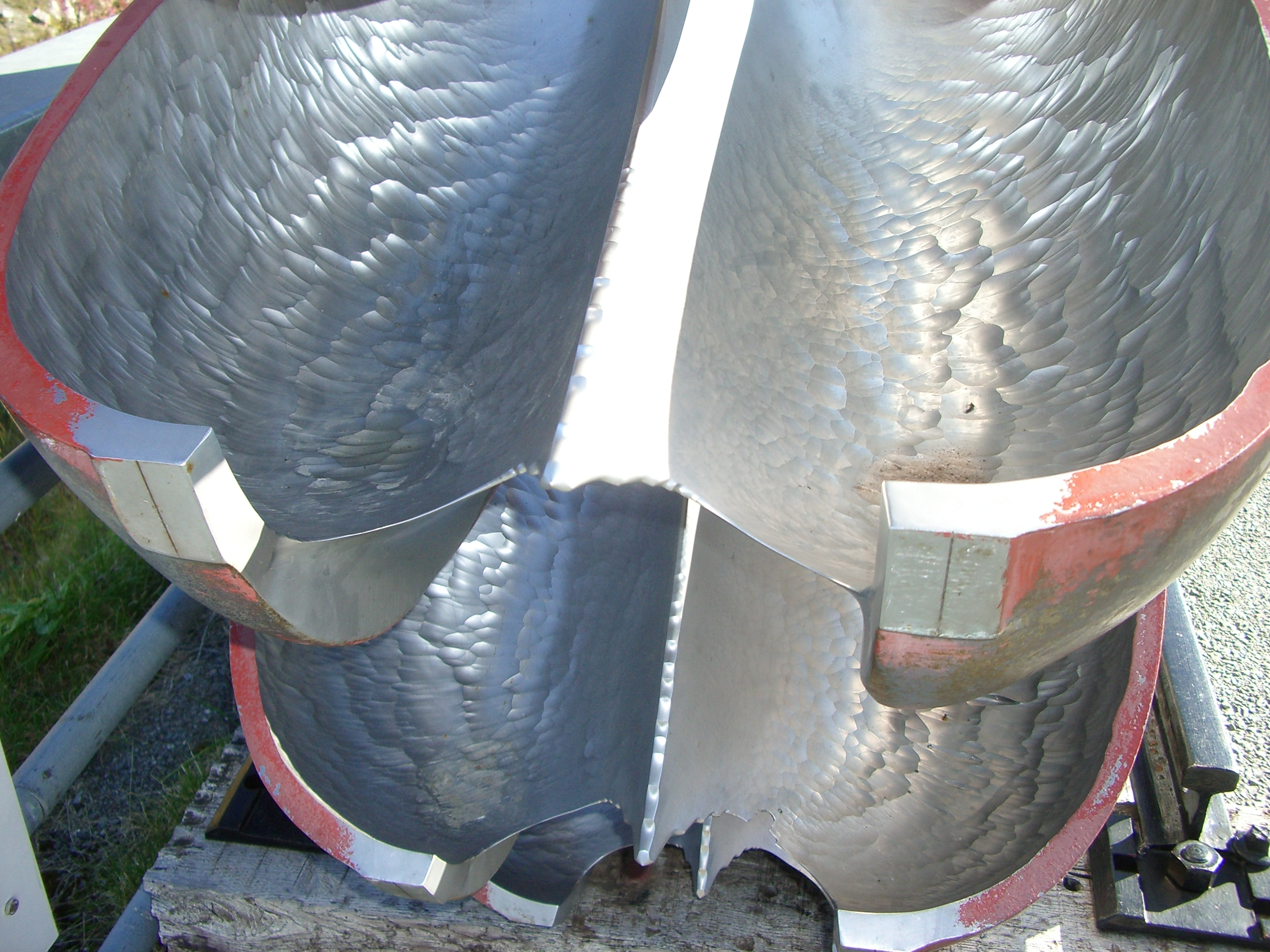 The attrition of a scrapped Pelton turbine from the hydroelectric power plant Barrage d'Emosson (Switzerland)